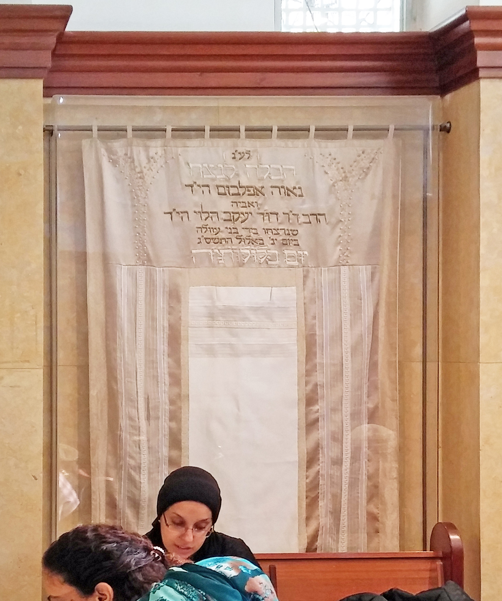 parochet (curtain for the Torah ark) that was made from the wedding dress of Nava Applebaum who was murdered in Jerusalem in a terror attack with her father, on her wedding day. The top of the parochet say : "forever bride"